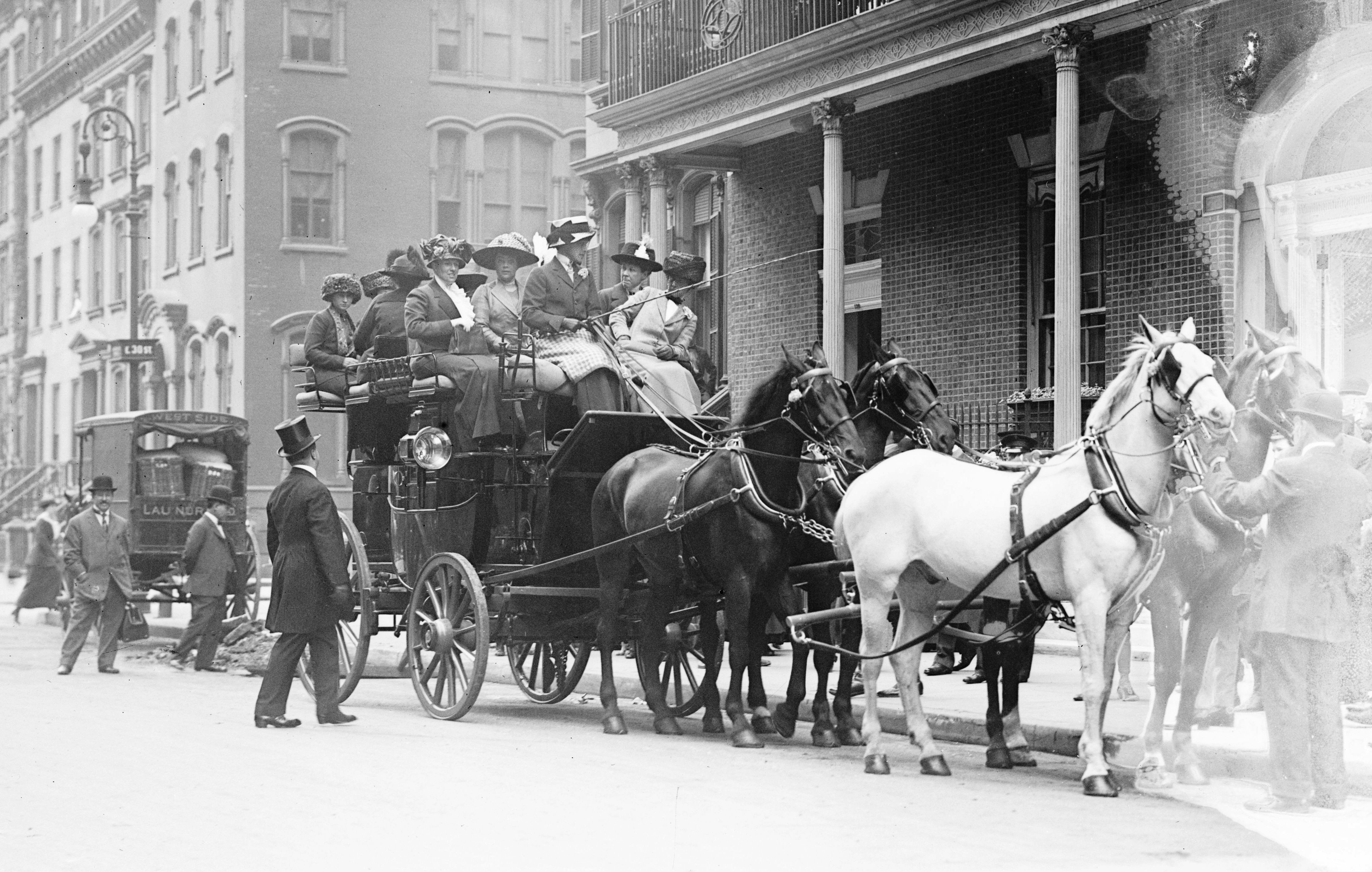 Mrs. Thos. Hasting's Coach leaves Colony Club. Mrs. A. Iselin, Mrs. Hastings, Mrs. W.G. Loew